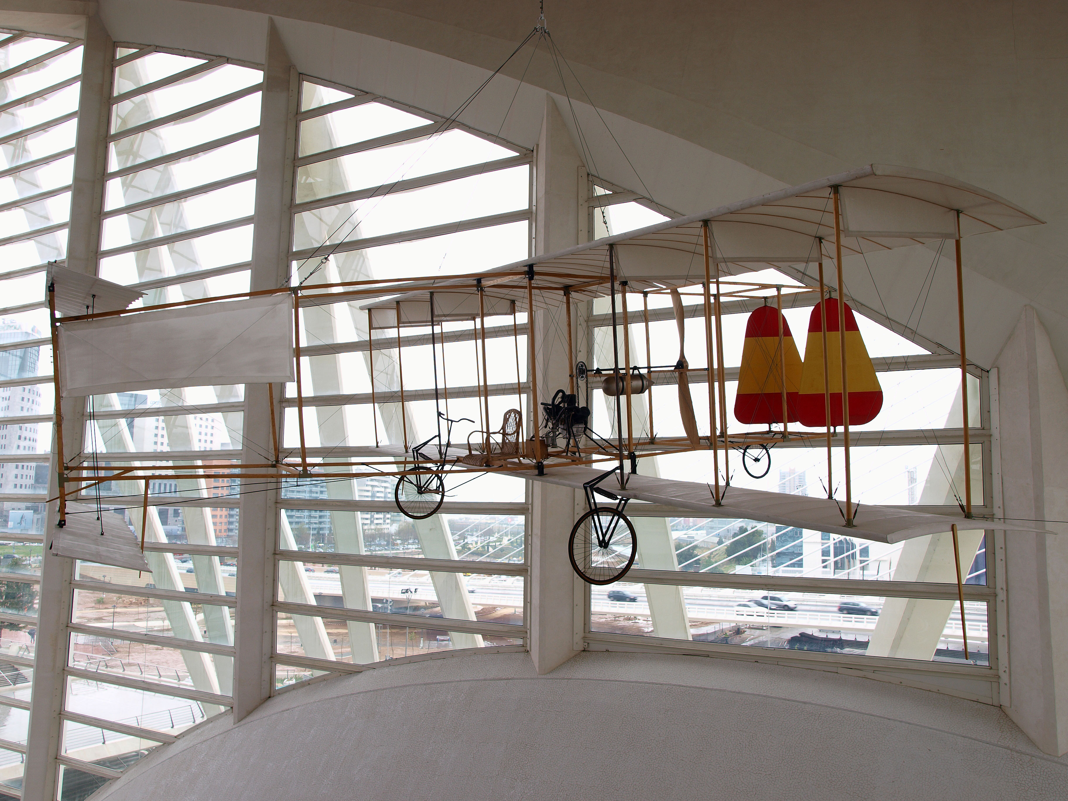 Olivert-Brunet aircraft. Replica built in 2003 at exhibition in Valencia (Spain) in the Prince Philippe Science Museum. It was the first aircraft to fly in Spain (Paterna, Valencia), in the year 1909.